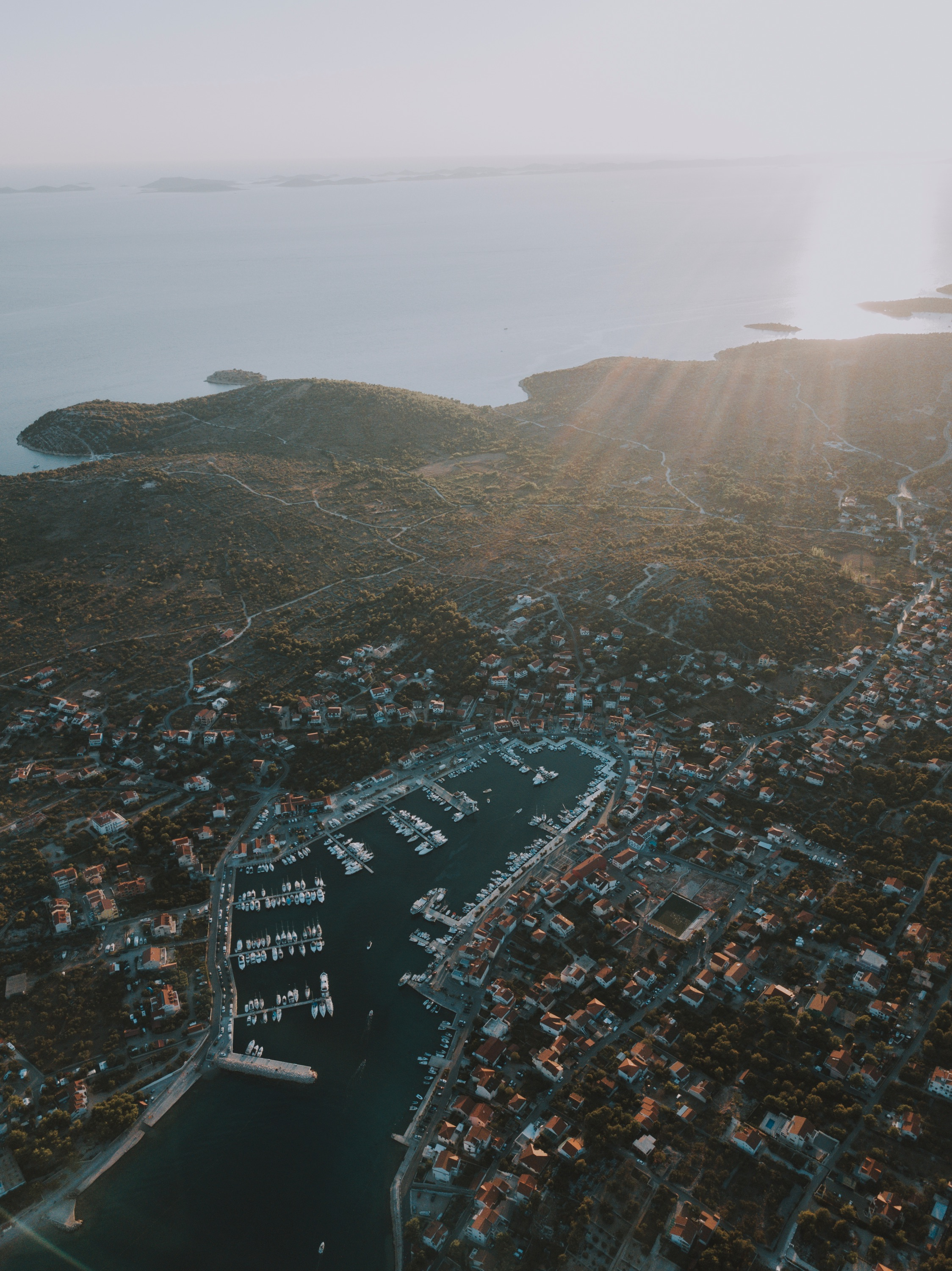 Sunset above Jezera, Croatia